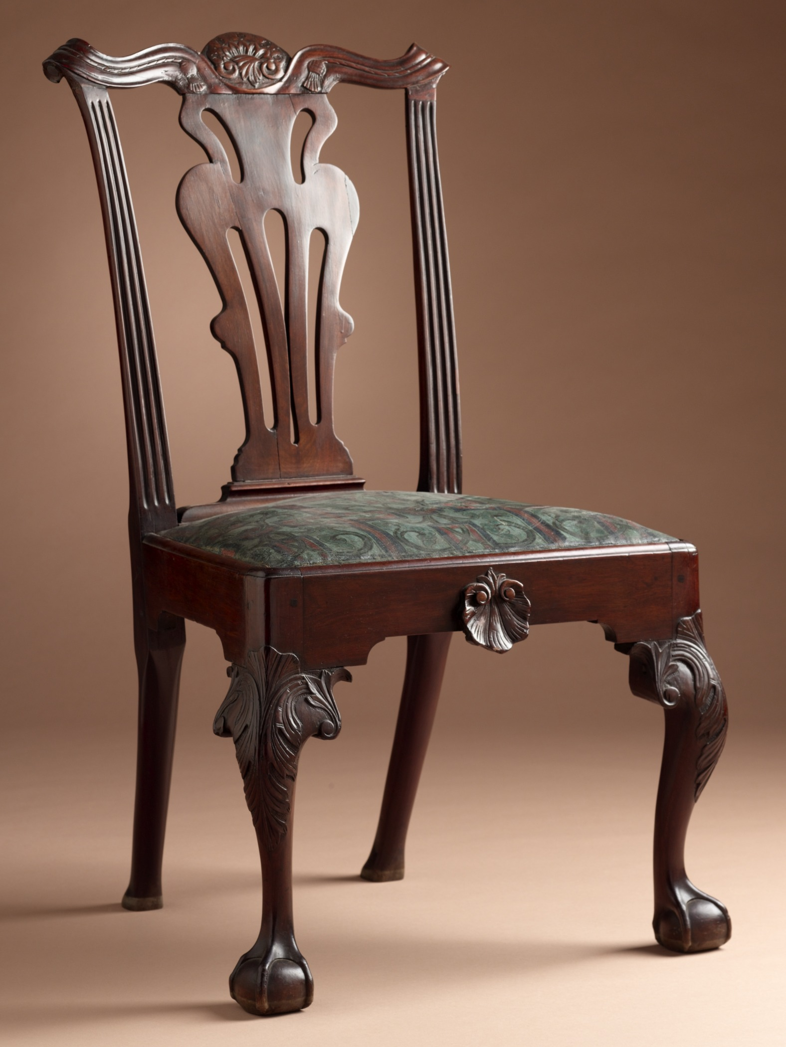 United States, Pennsylvania, Philadelphia, 1760-1790 Furnishings; Furniture Mahogany wood, painted oil cloth 39 x 17 1/2 x 22 3/4 in. (99.06 x 44.45 x 57.79 cm) Gift of Mrs. Murray Braunfeld (M.2006.51.45) Decorative Arts and Design